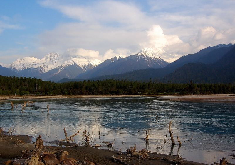 Gangxiang Nature Reserve, Bomê County, Nyingchi Prefecture, Tibet Autonomous Region This is another morning picture of the area.